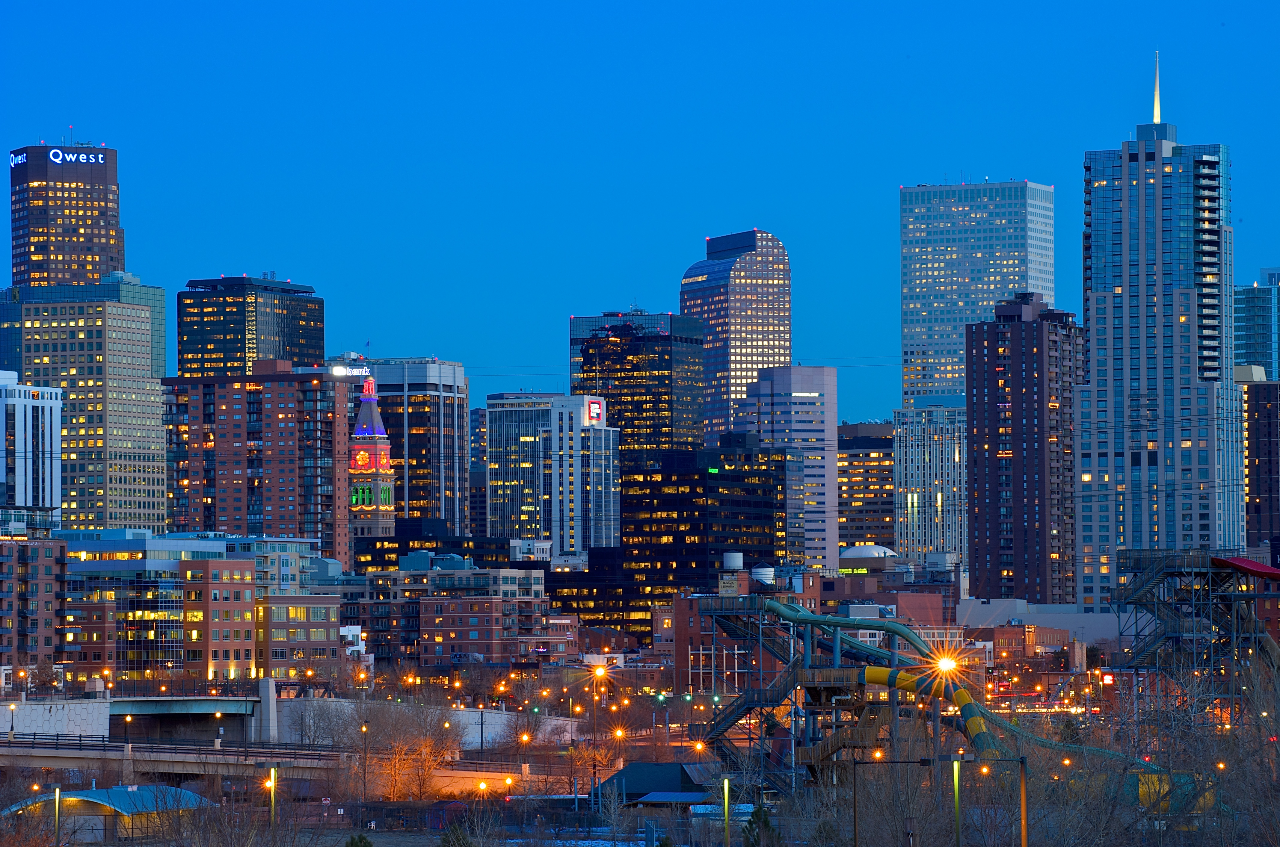 Denver Skyline at Sunset, Denver, Colorado Denver